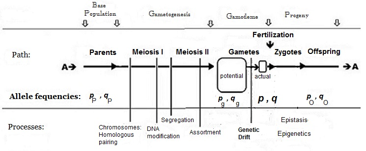 Outline of Sexual Reproduction